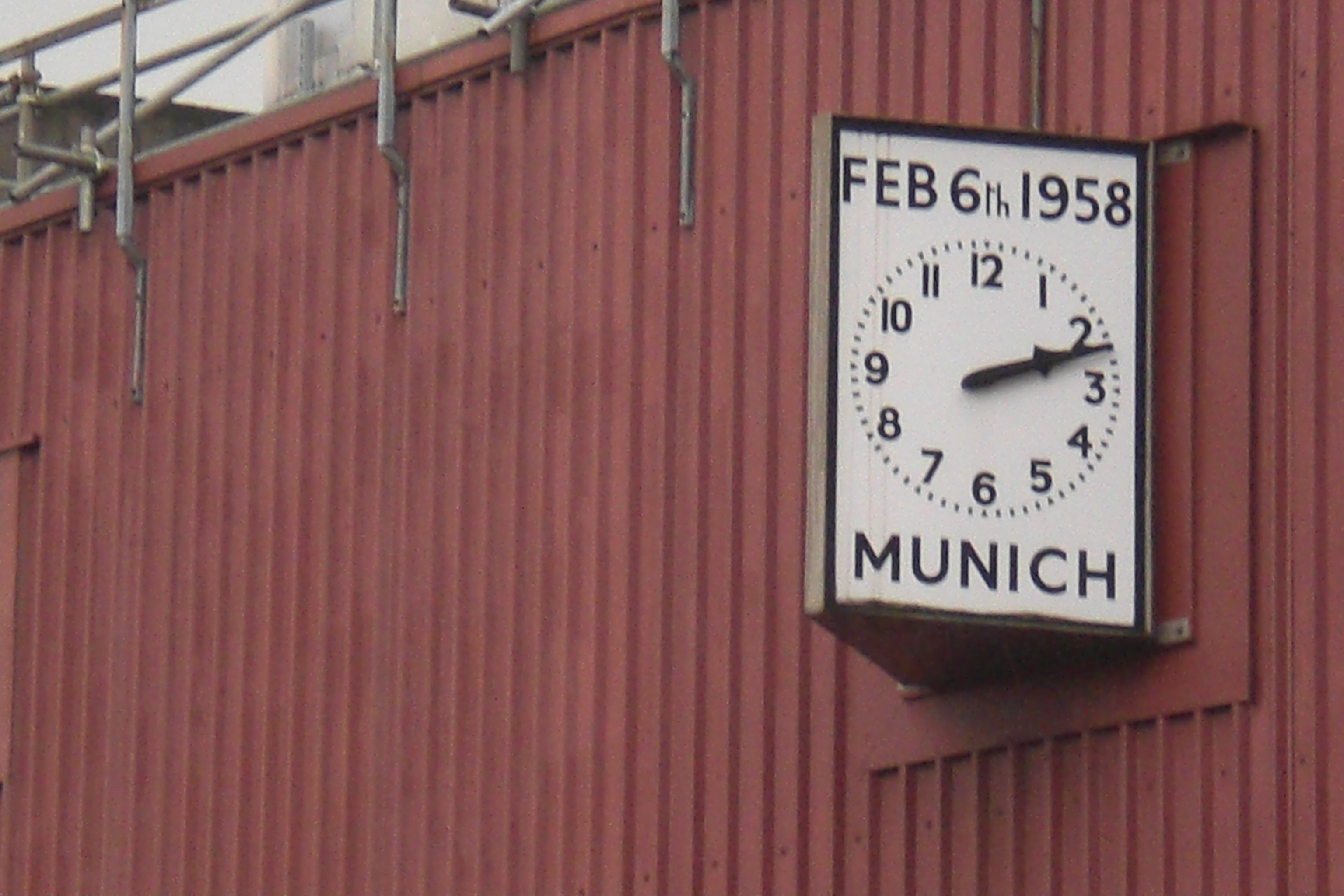 The clock attached to Old Trafford, which has been stopped at exactly the time the Munich air disaster happend